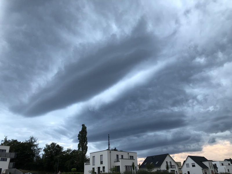 Picture shows four elipsoidal clouds forming "lee wave" on the lee side of a mountain ridge.